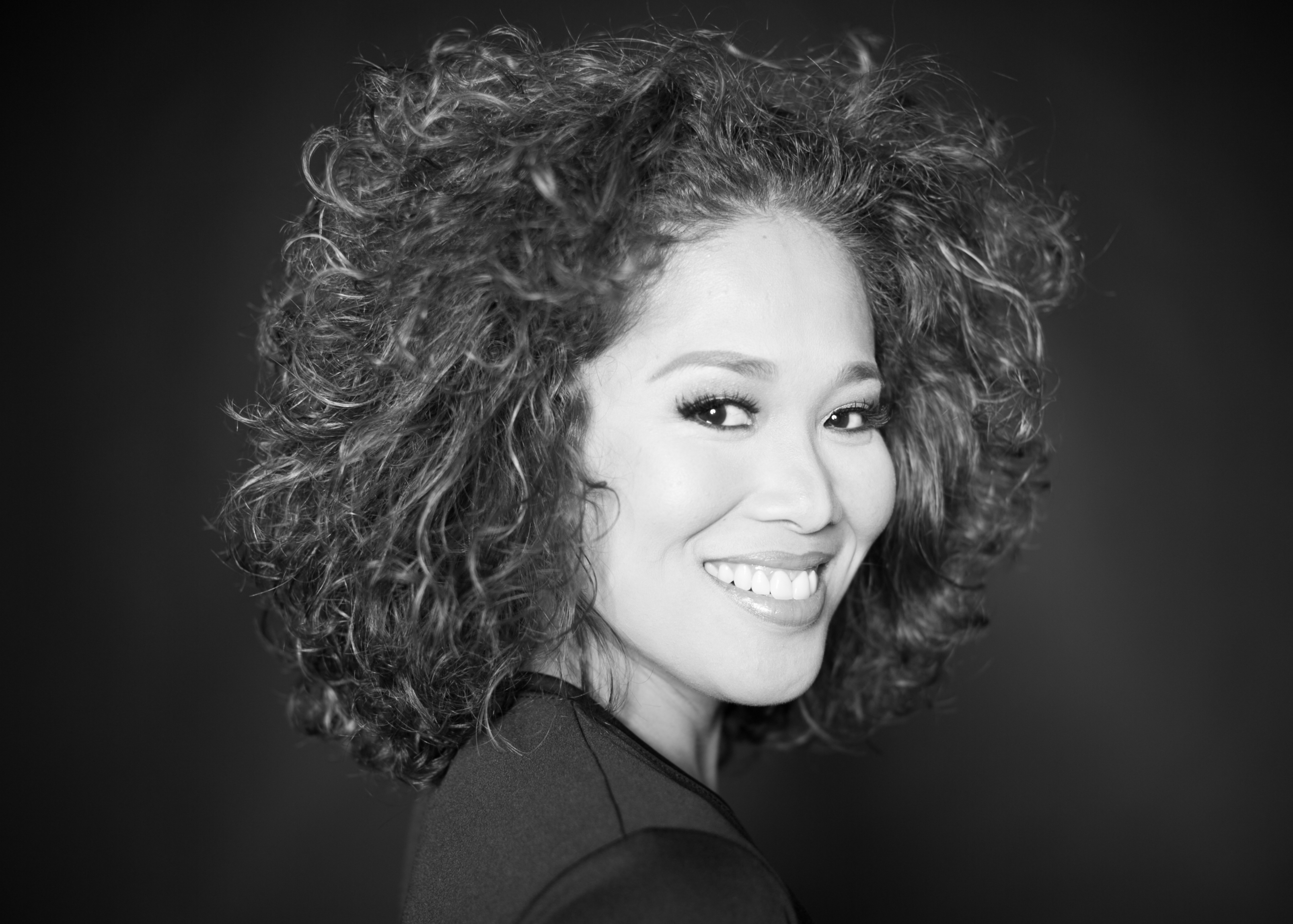 Public use headshot for singer Anna Fegi-Brown